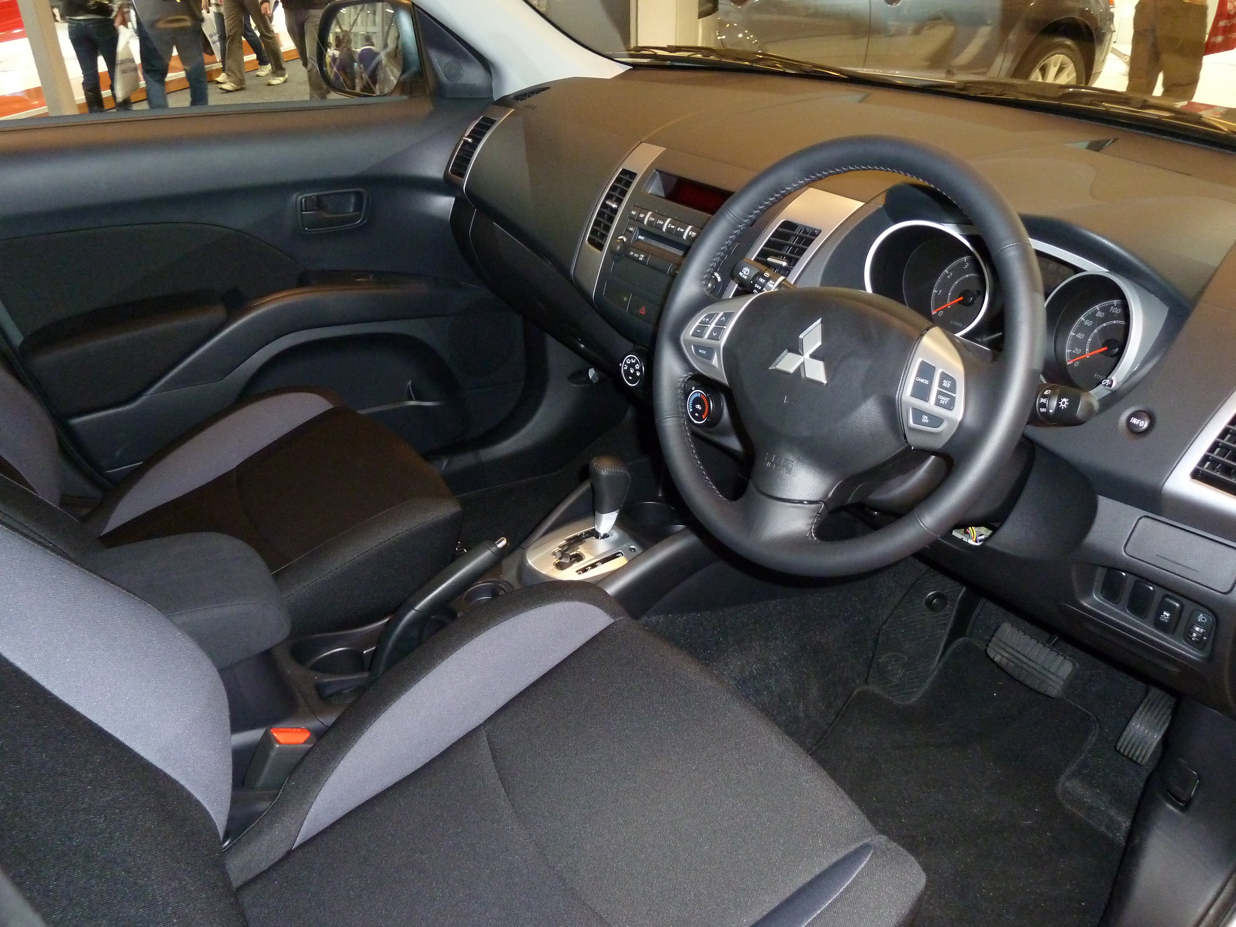 2010 Mitsubishi Outlander (ZH MY11) LS wagon. Photographed at the 2010 Australian International Motor Show, Sydney, New South Wales, Australia.